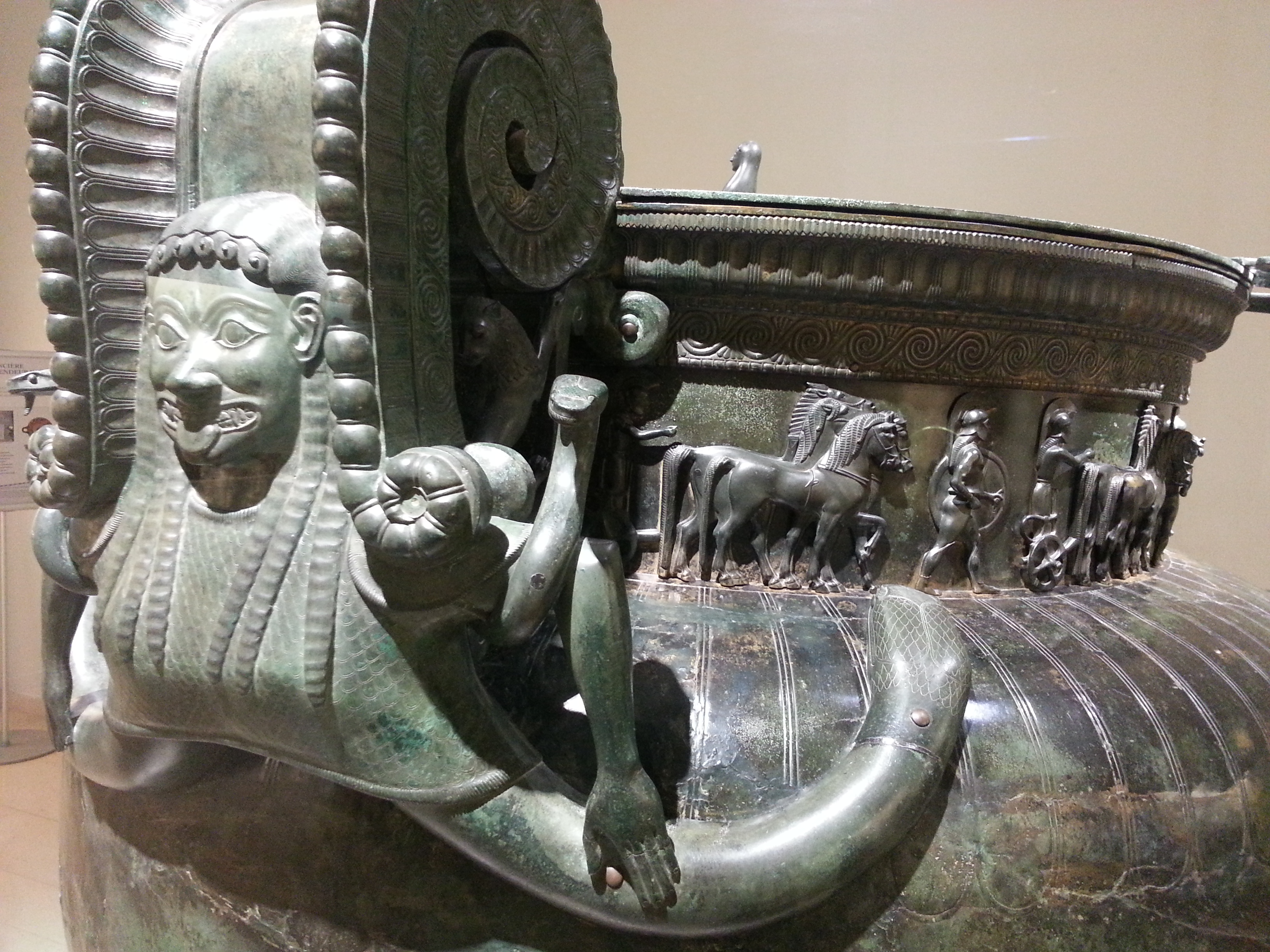 Châtillon-sur-Seine